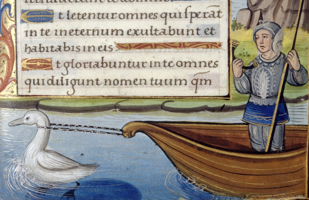 The Knight of the Swan, miniature from a 15th-century book of hours (Oxford, Bodleian Library, MS Douce 276, folio 095r